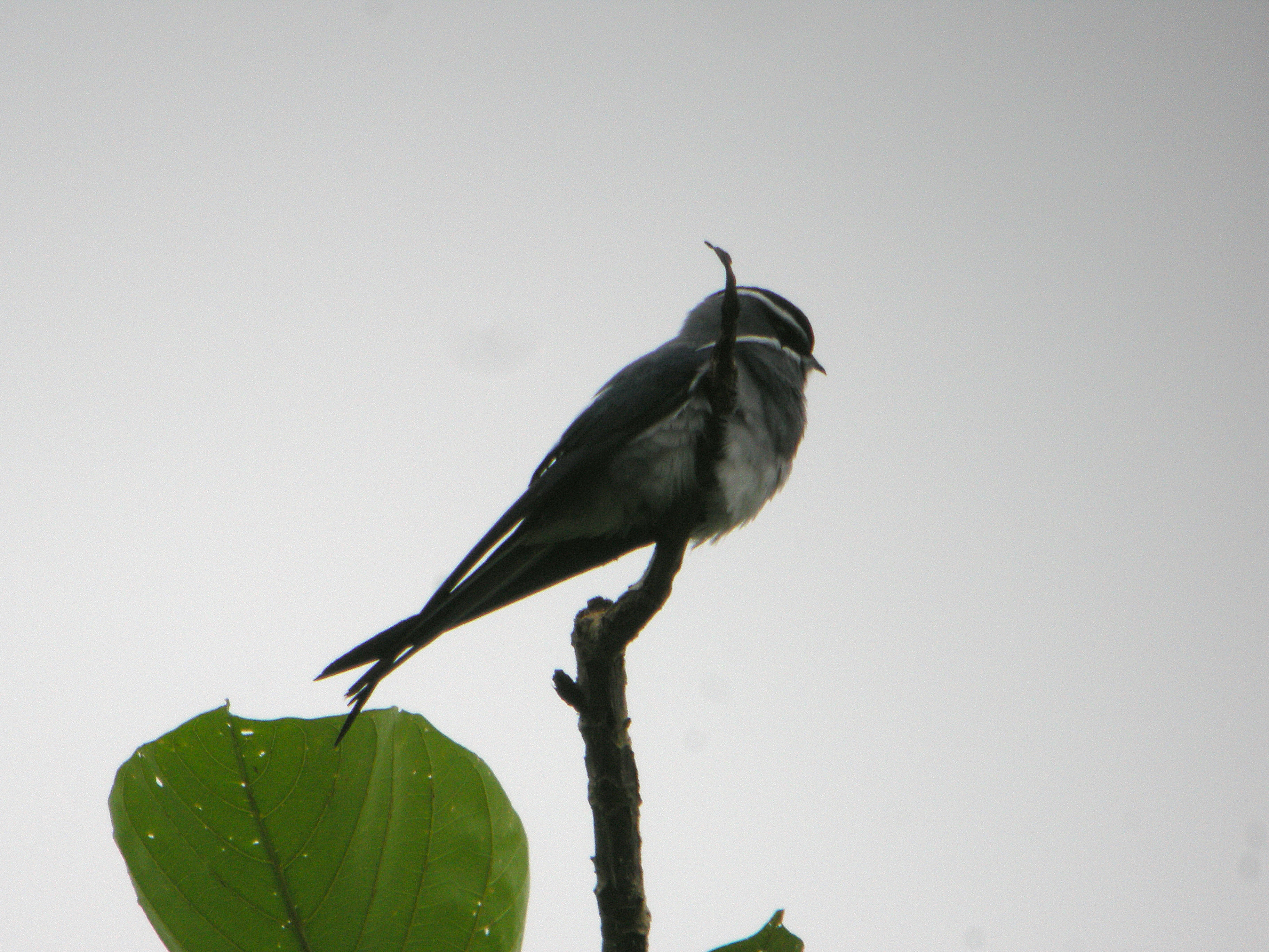 Moustached Treeswift in Papua New Guinea.